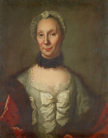 Porträtt av Kristina Hülphers, f. Westdahl (1711-1767), maka till handelsman och rådman Abraham Hülphers. Porträtt från ca 1750 av okänd.